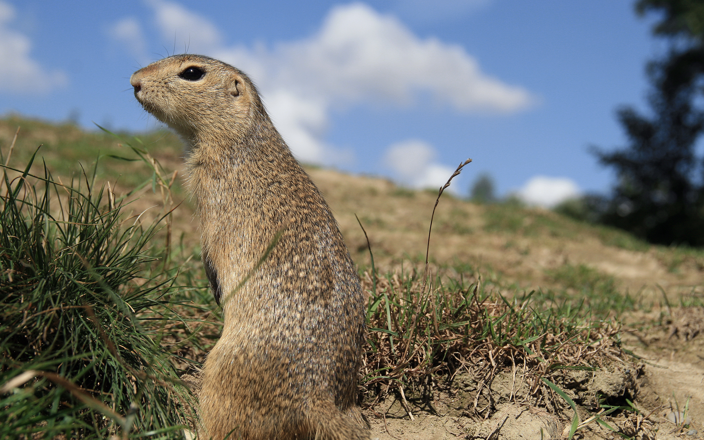 European ground squirrel (Spermophilus citellus) at Danube-Auen National Park (Orth an der Donau, Austria). This file shows the National Park Donau-Auen in Austria.